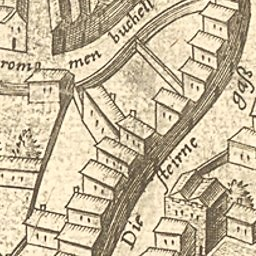 Sternengasse - Kölner Stadtansicht von 1570 des Arnold Mercator